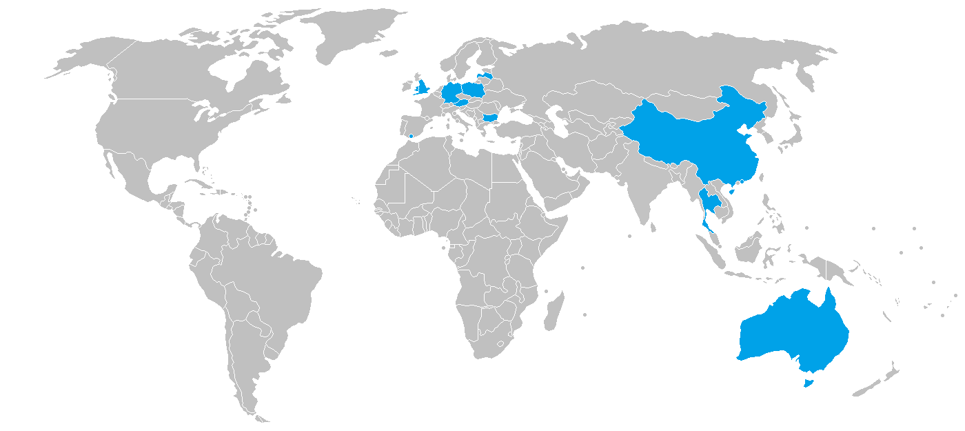 Nations hosting a World Snooker Tour event in 2015/16